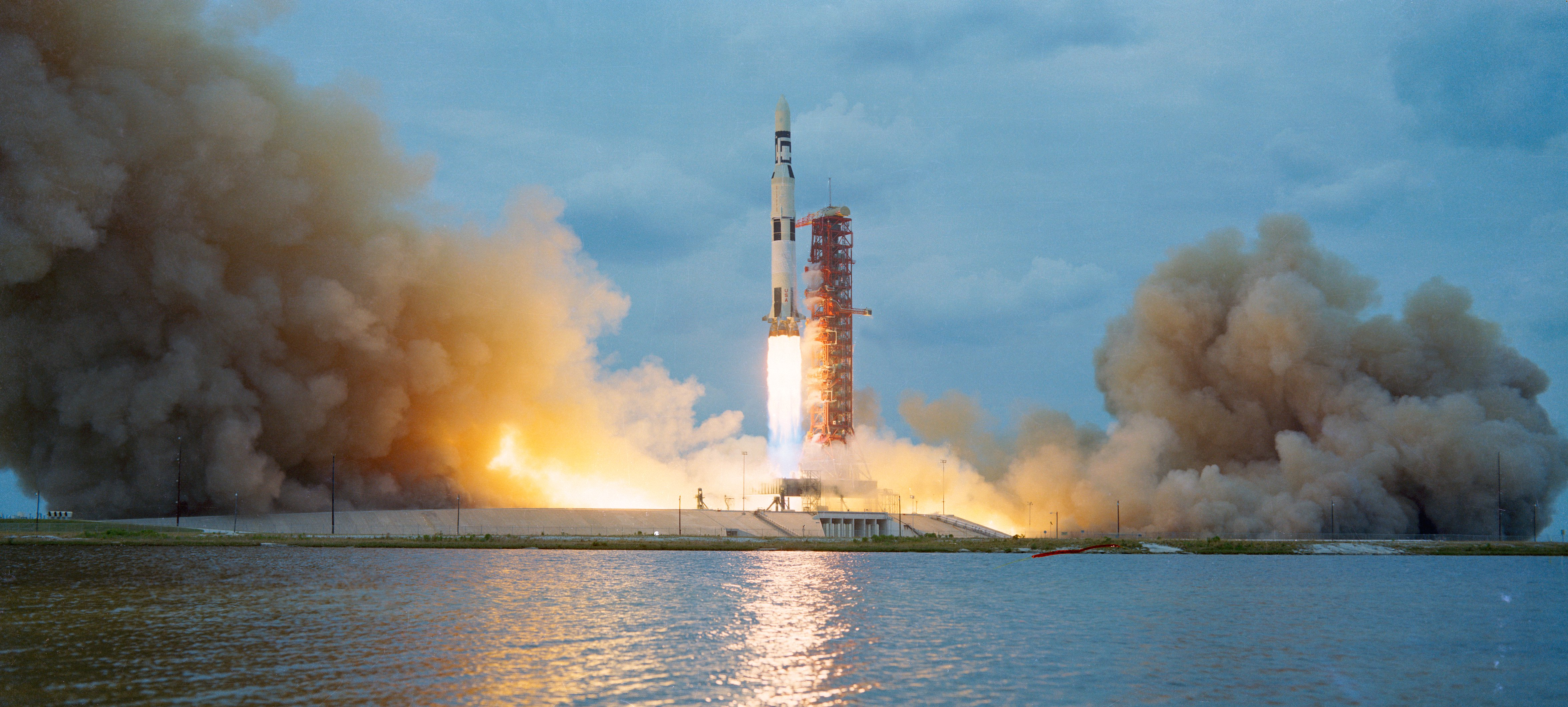 The unmanned Skylab 1/ Saturn V Space Vehicle is launched from Pad A, Launch Complex 39, to place the Skylab Space Station cluster in Earth orbit. The Skylab 1 payload included four of the five major components of the Space Station-Orbital Workshop, Apollo Telescope Mount, Multiple Docking Adapter, and Airlock Module. In addition to the payload, the Skylab 1 / Saturn V second S-11 stage. The fifth major component of the Space Station, the Command Service Module with the Skylab 2 crew aboard, was launched at a later date by a Saturn 1B from Pad B.